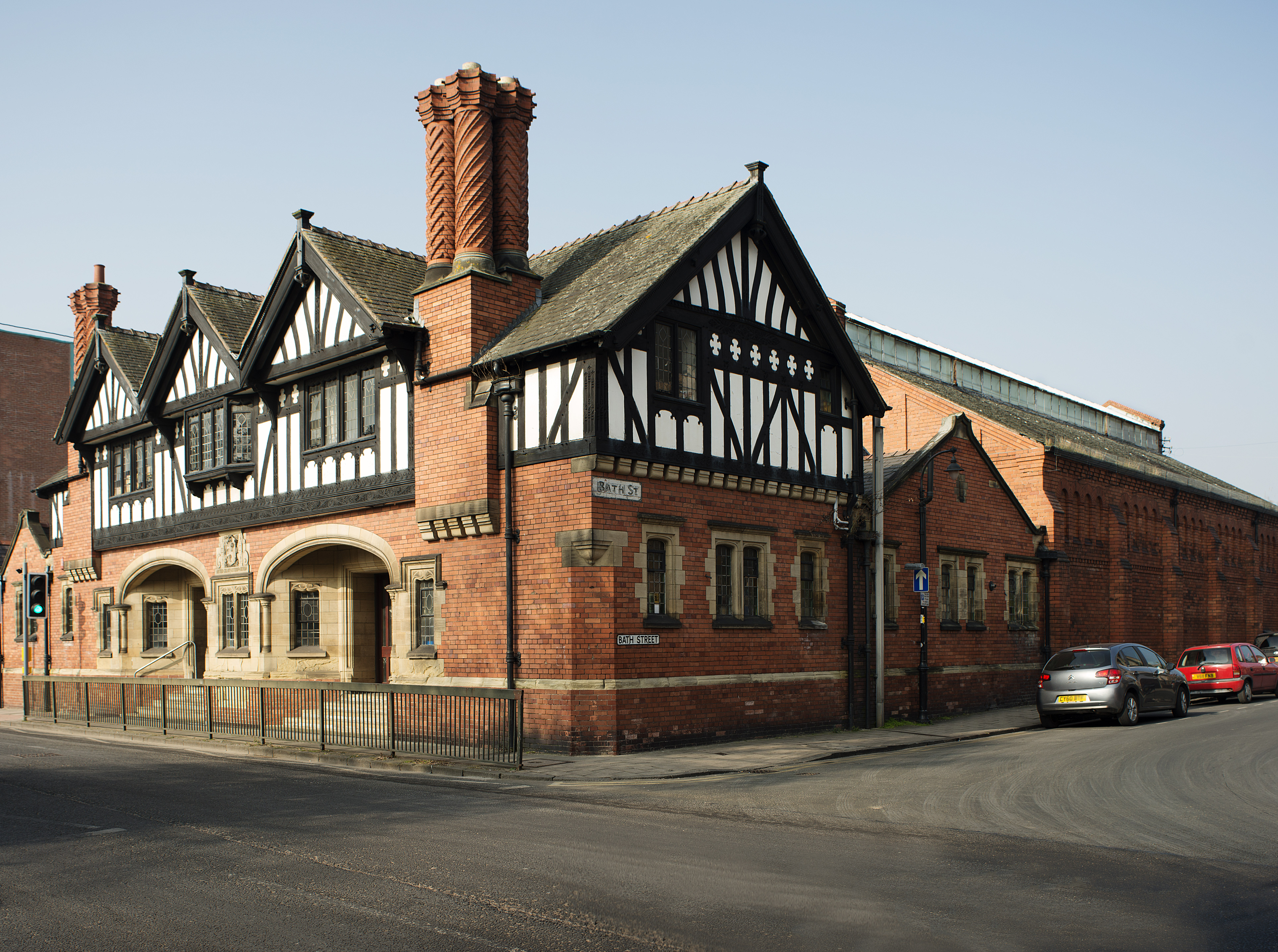 Photograph of the public baths in Chester